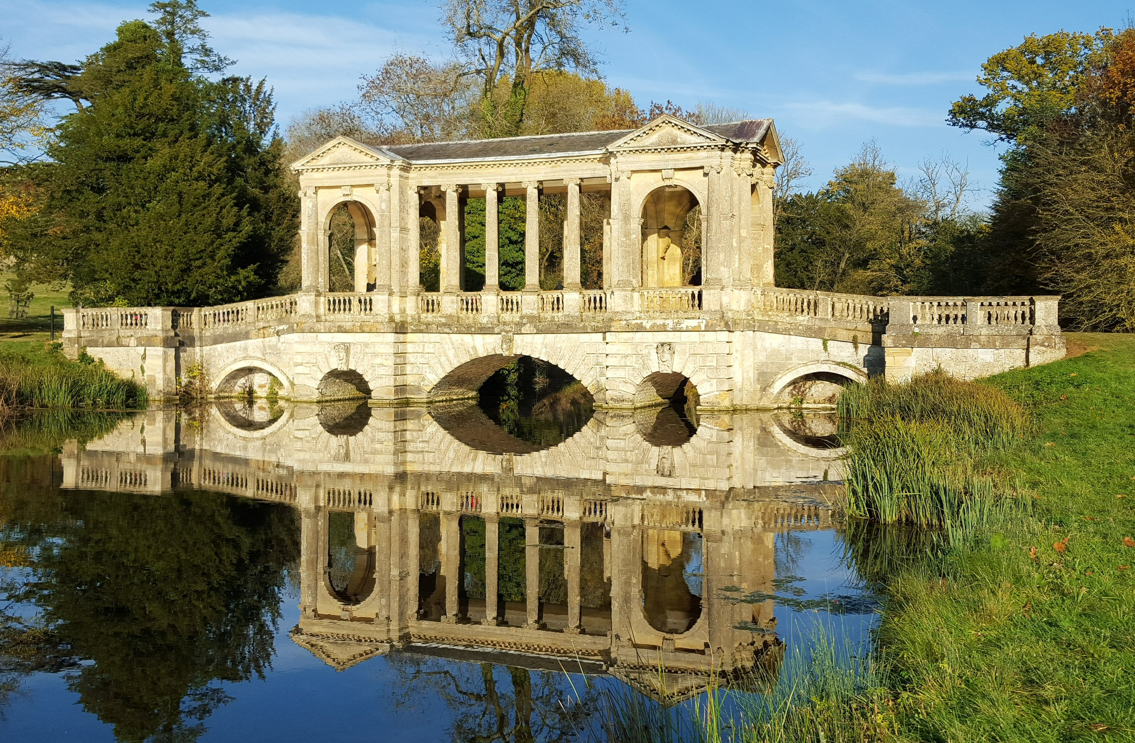 The Palladian Bridge in Stowe Gardens. A Grade I listed building.